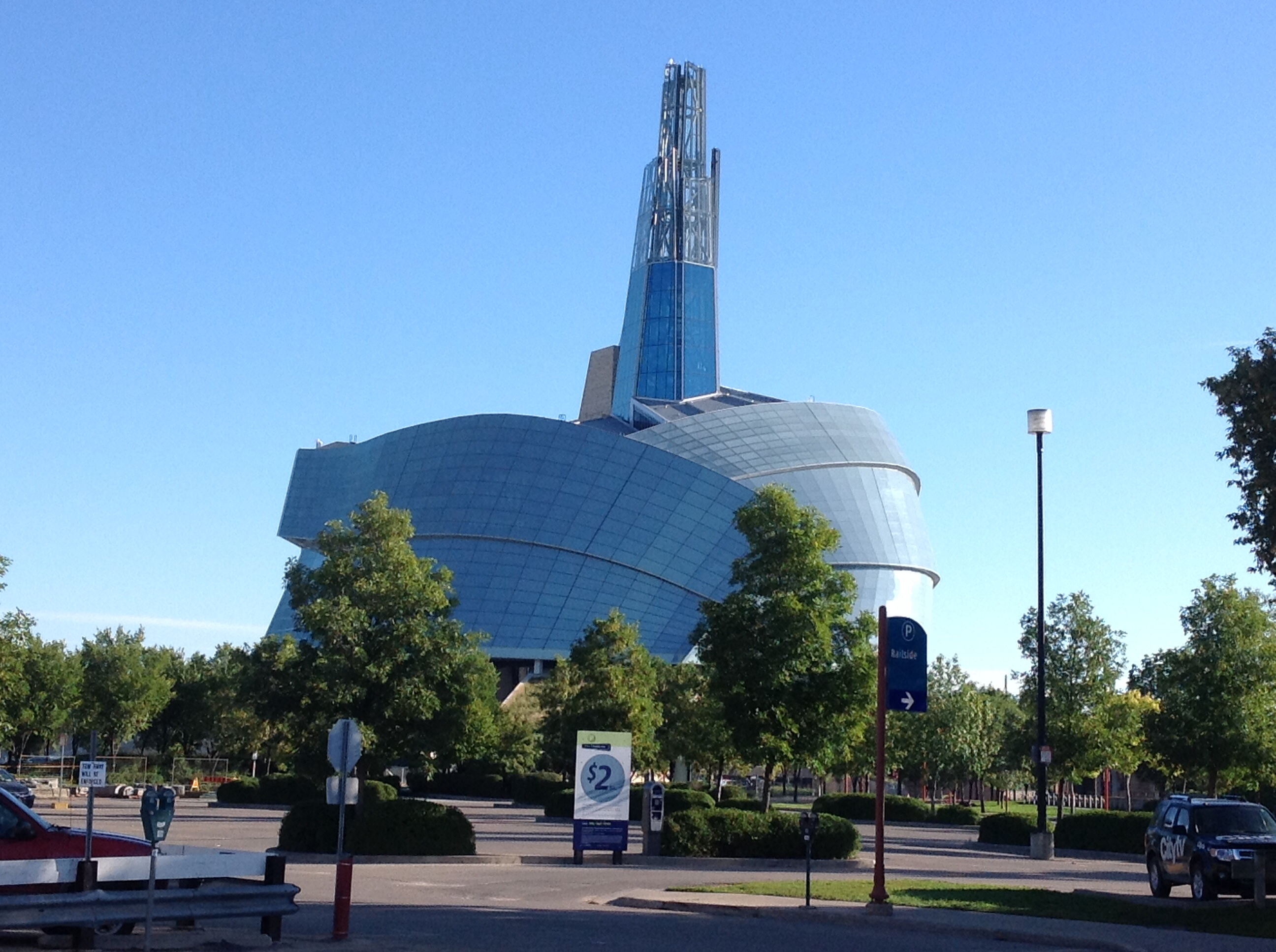 Canadian Museum for Human Rights